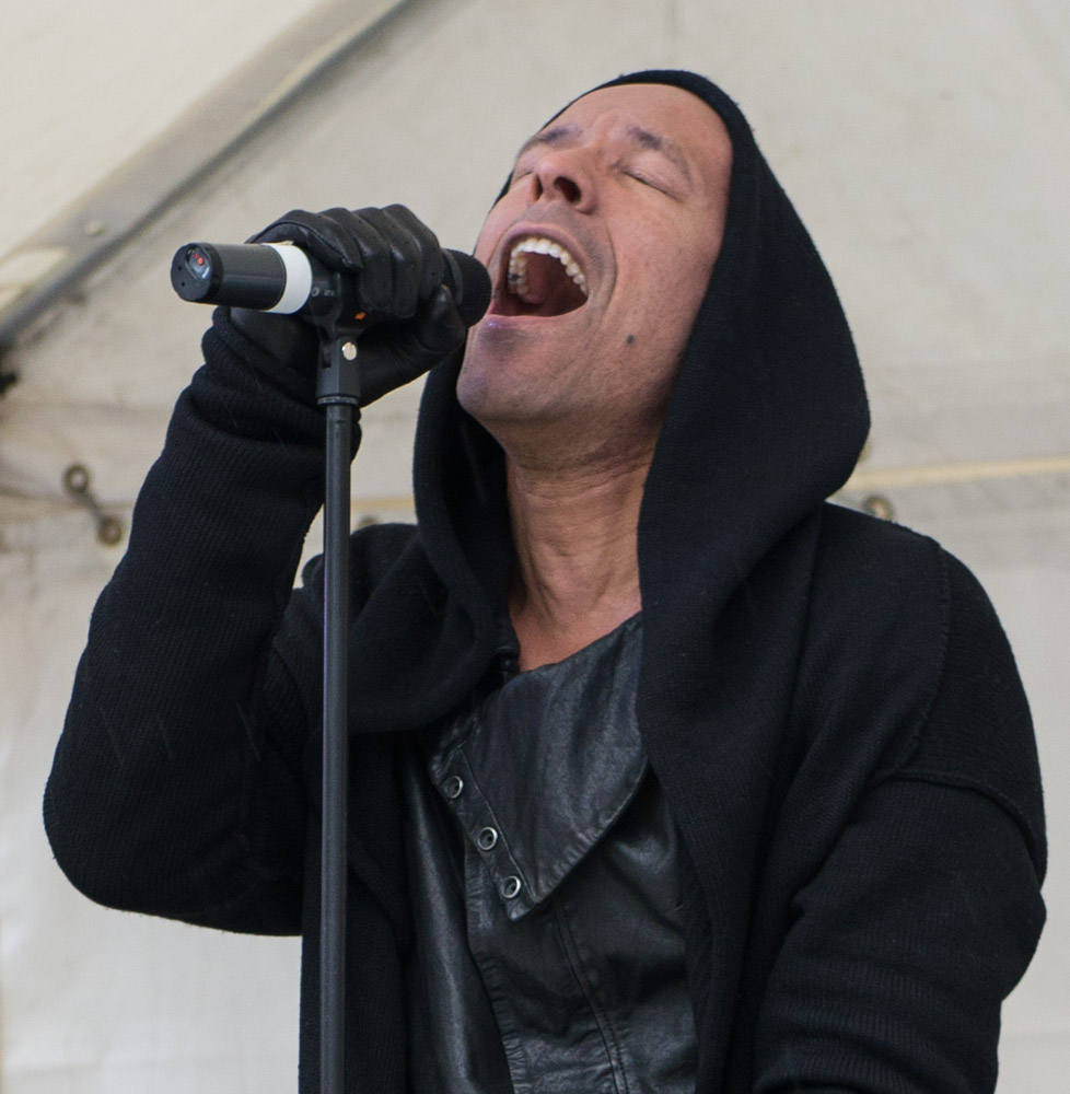 Manifestation in Stockholm in June 2015 for Dawit Isaak who has been imprisoned for 5000 days in Eritrea.